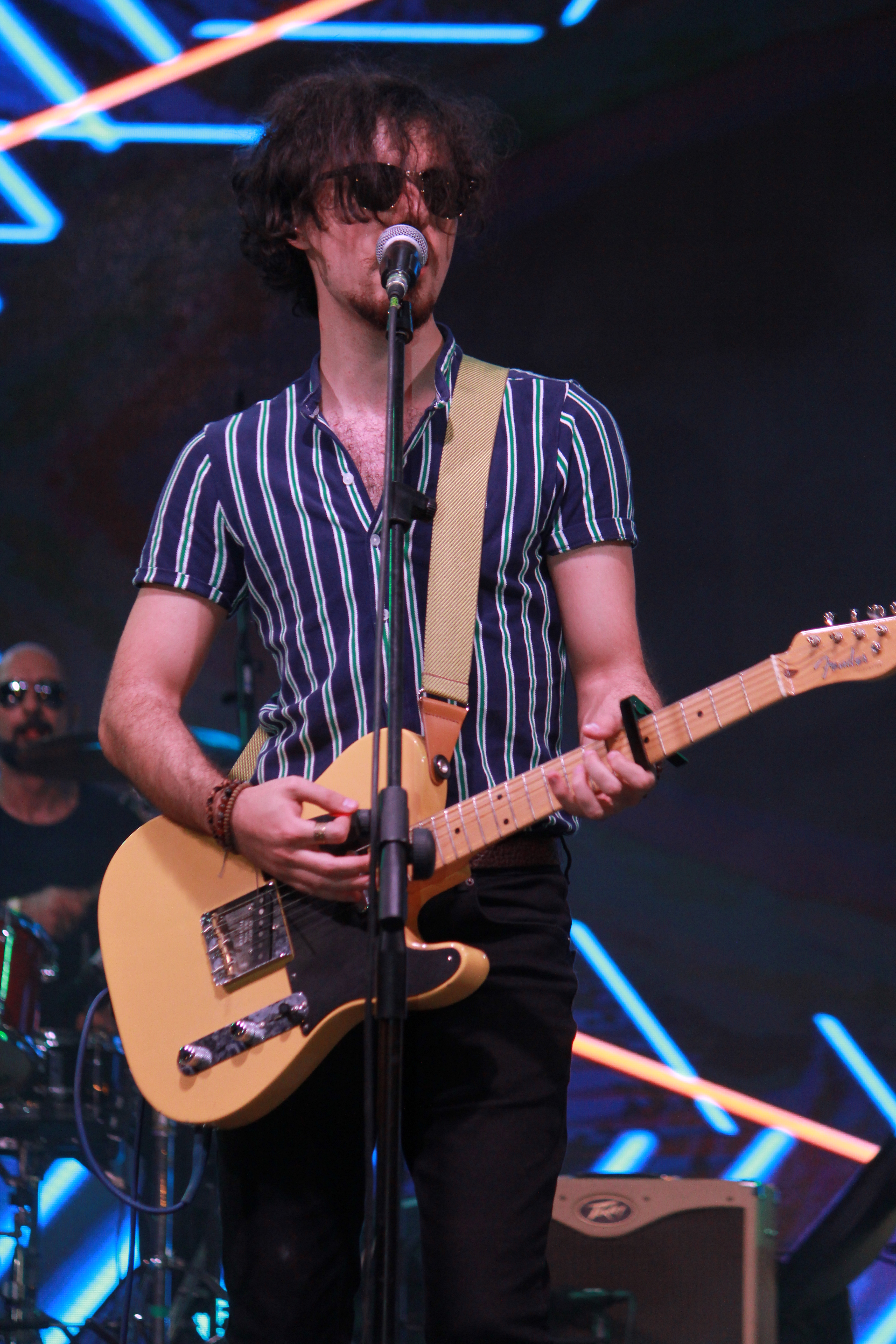 "Armenia in Rock" Festival at Freedom Square